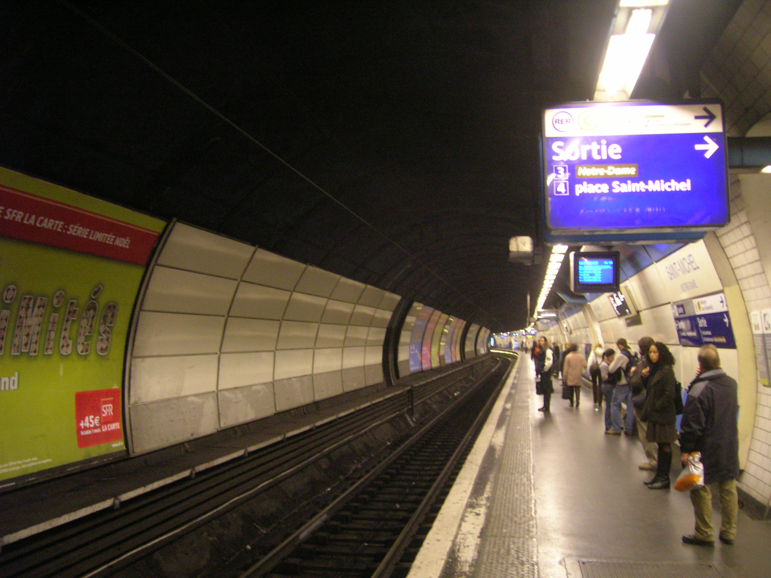 Station RER B St Michel Notre Dame, Paris, France